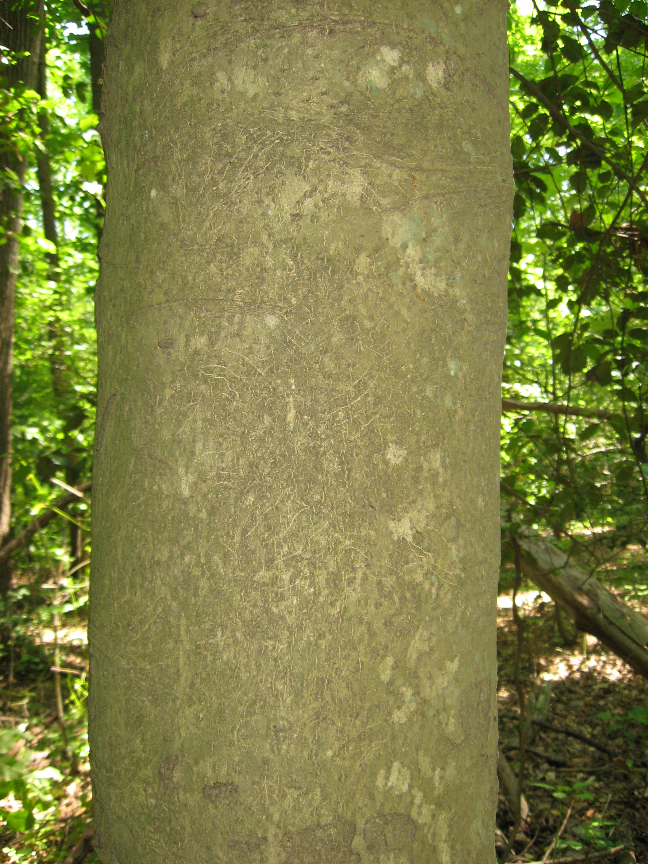 A picture of Ilex opaca. The tree was found at the Lewis W. Barton Arboretum and Nature Preserve at Meford Leas.